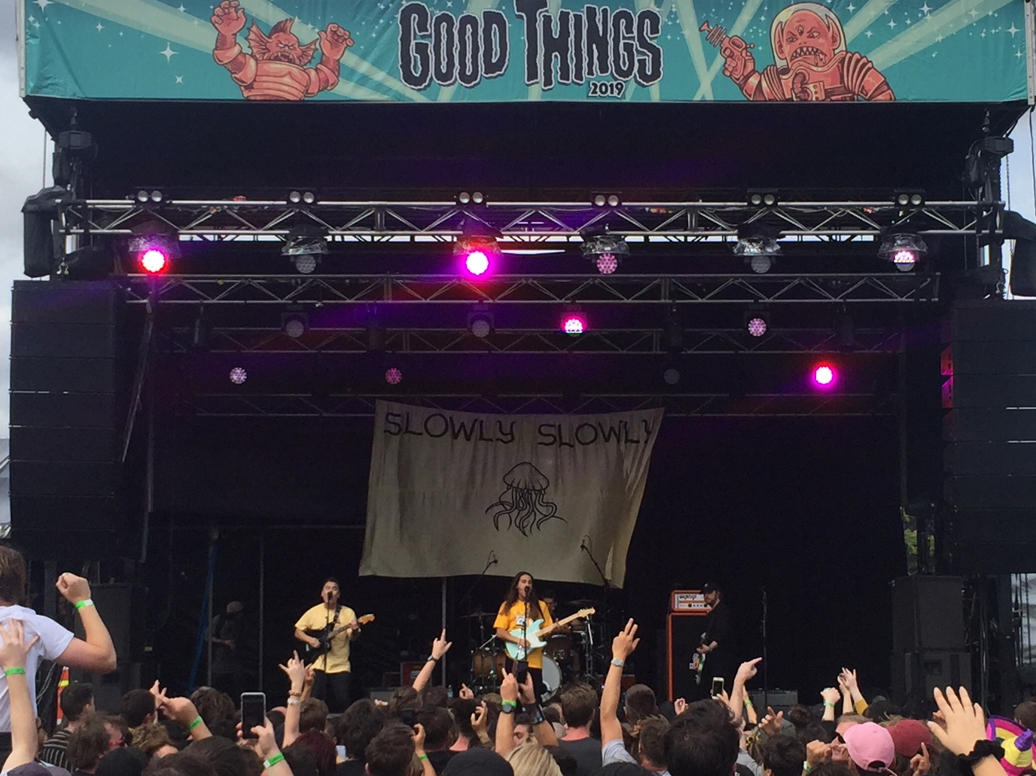 Slowly Slowly live at Good Things Festival in Melbourne, Australia (December 6, 2019)